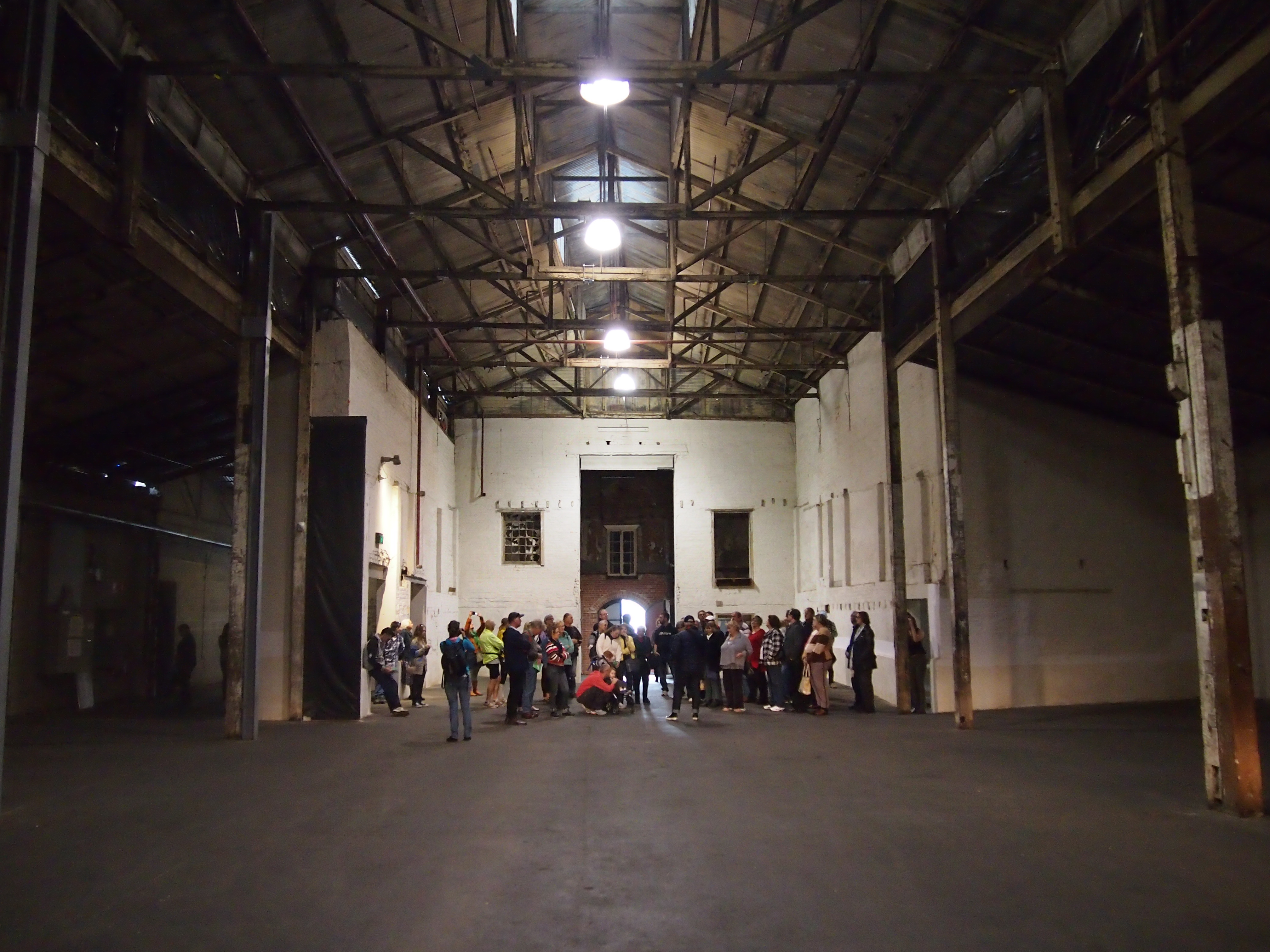 The partially restored interior of the Queen's Theatre, Adelaide is now used as a performance space. Photo taken during an "Open House' event (part of History Month 2014); view is to the north, towards the entrance and where the tiered seating was originally located. Original filename = P5041817.JPG